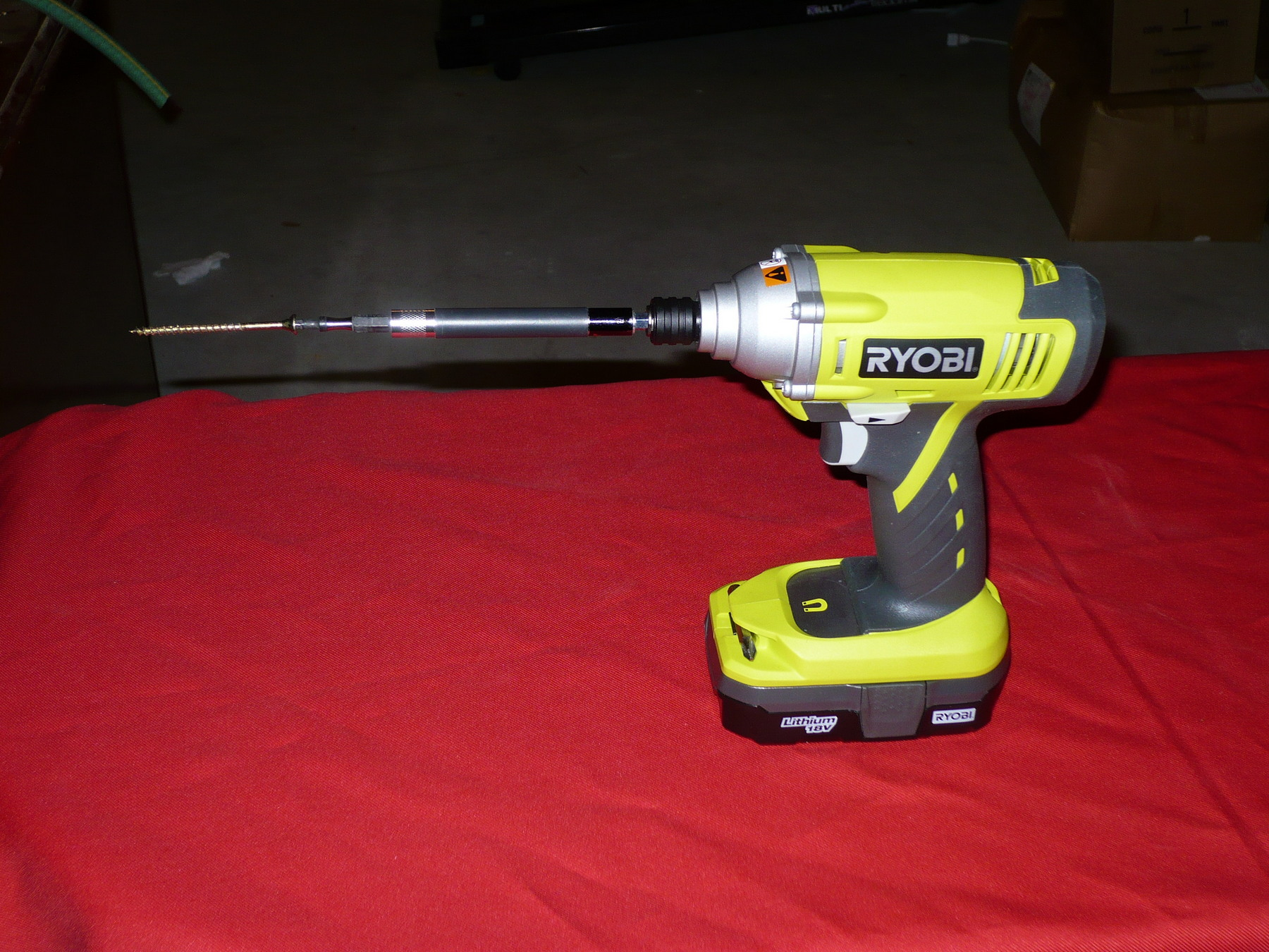 Ryobi impact driver with lithium ion rechargeable battery,drive guide and #8 2 1/2 inch Robertson screw attached中文（中国大陆）: 冲击电起子+螺丝导管+2.5英寸 罗伯森螺丝钉